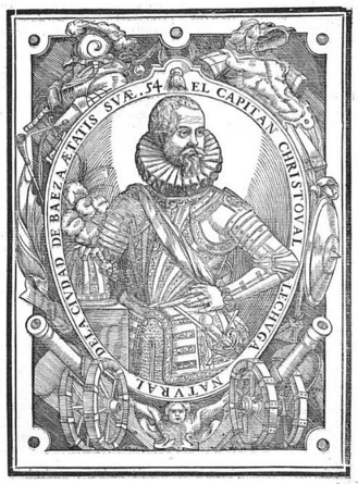 Portrait of Cristobal Lechuga (1557-1622) from his book about artillery and fortification published in 1611